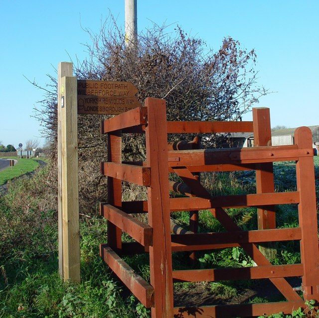 The Kissing Gate, Market Weighton, East Riding of Yorkshire, England.The Yorkshire Wolds Way "alternative route" (through Market Weighton) together with the newly defined Wilberforce Way leave York Road (just visible on the left of the photograph) and go north through Weighton Clay Fields. The point of departure is this kissing gate.